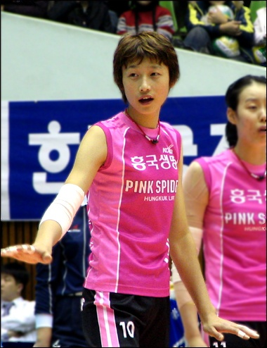 Korean Volleyball Player Kim Yeon-koung playing for Cheonan Heungkuk Life Pink Spiders in the South Korean V-League 2005-06 season.